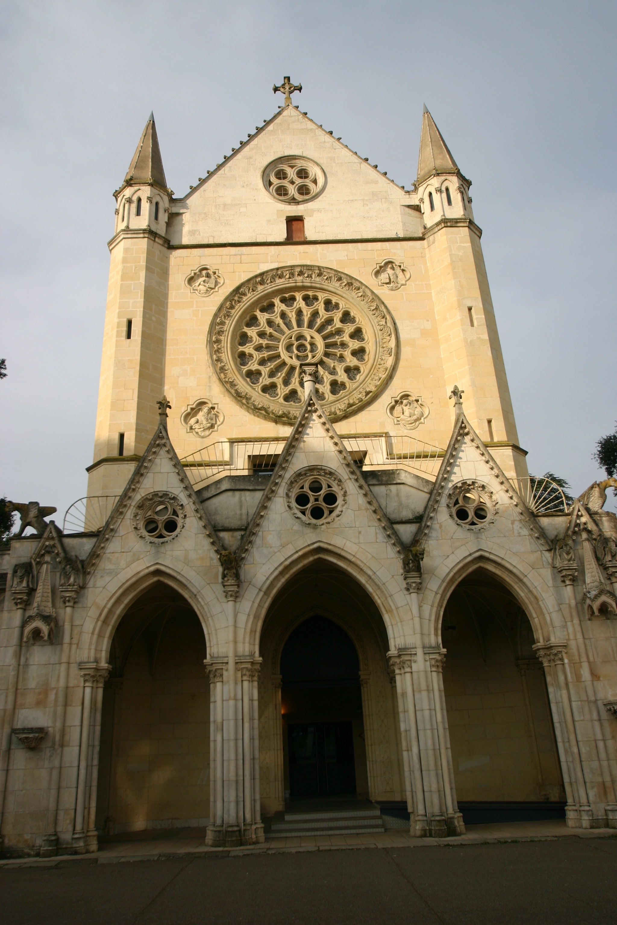 It is the frontage of the Jacques Cœur high school chapel, in Bourges, France.